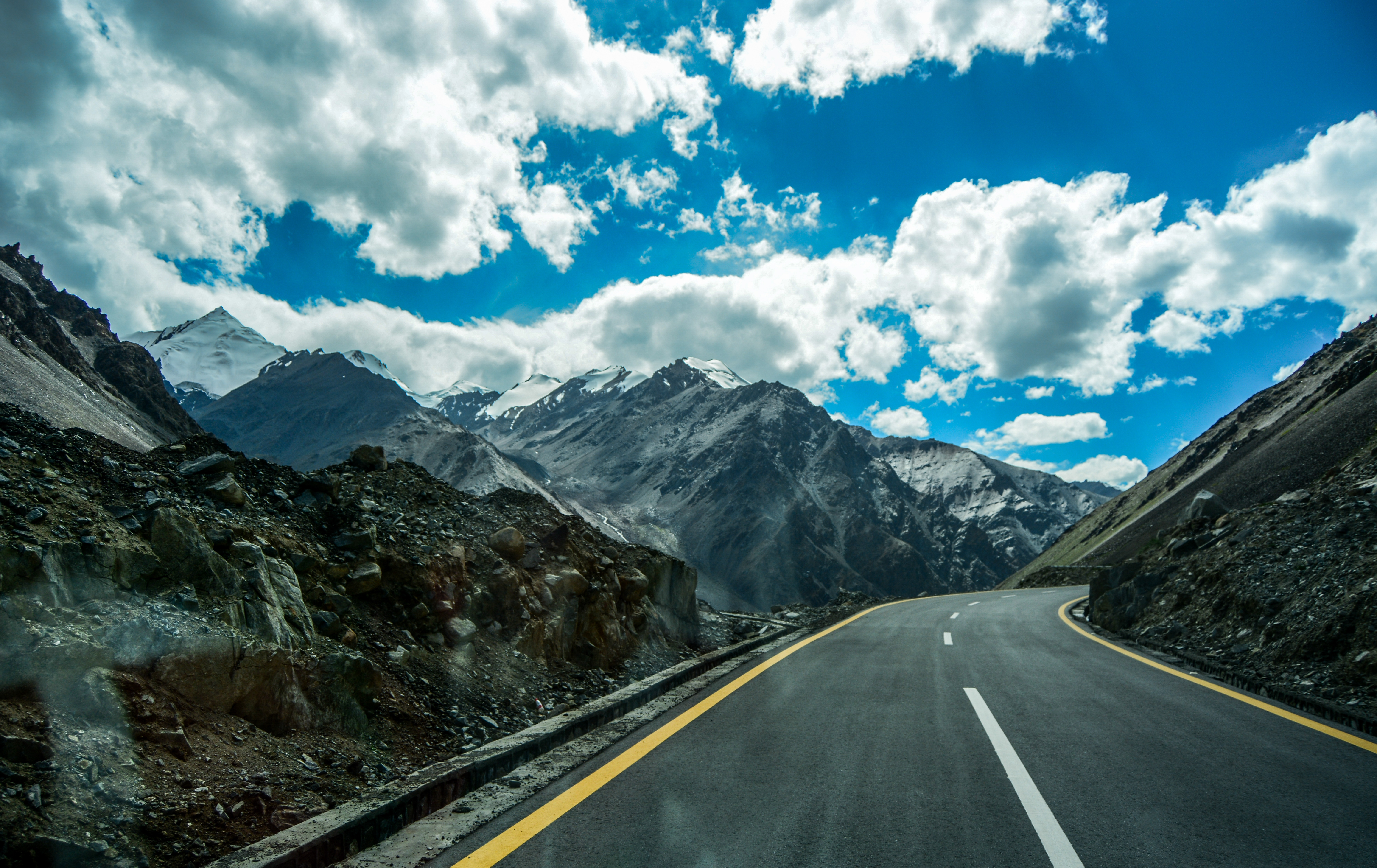 Karakoram Highway at elevation of 15,397 ft made on international standards gives you a perfect scenery at every turn you take , This road defines the everlasting friendship of the two countries Pakistan and China